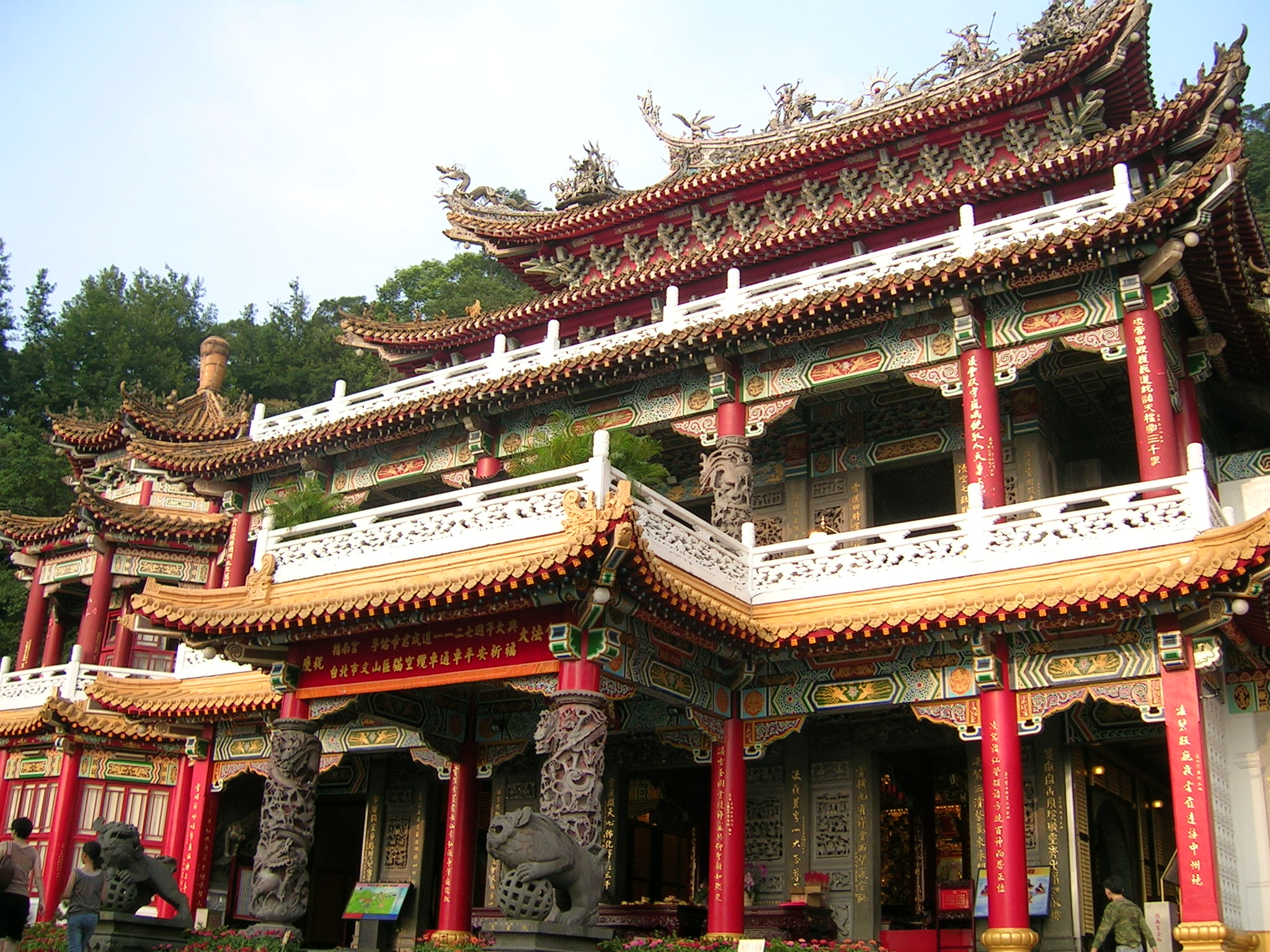 Zhinan Temple (Zhinan gong), Taipei City